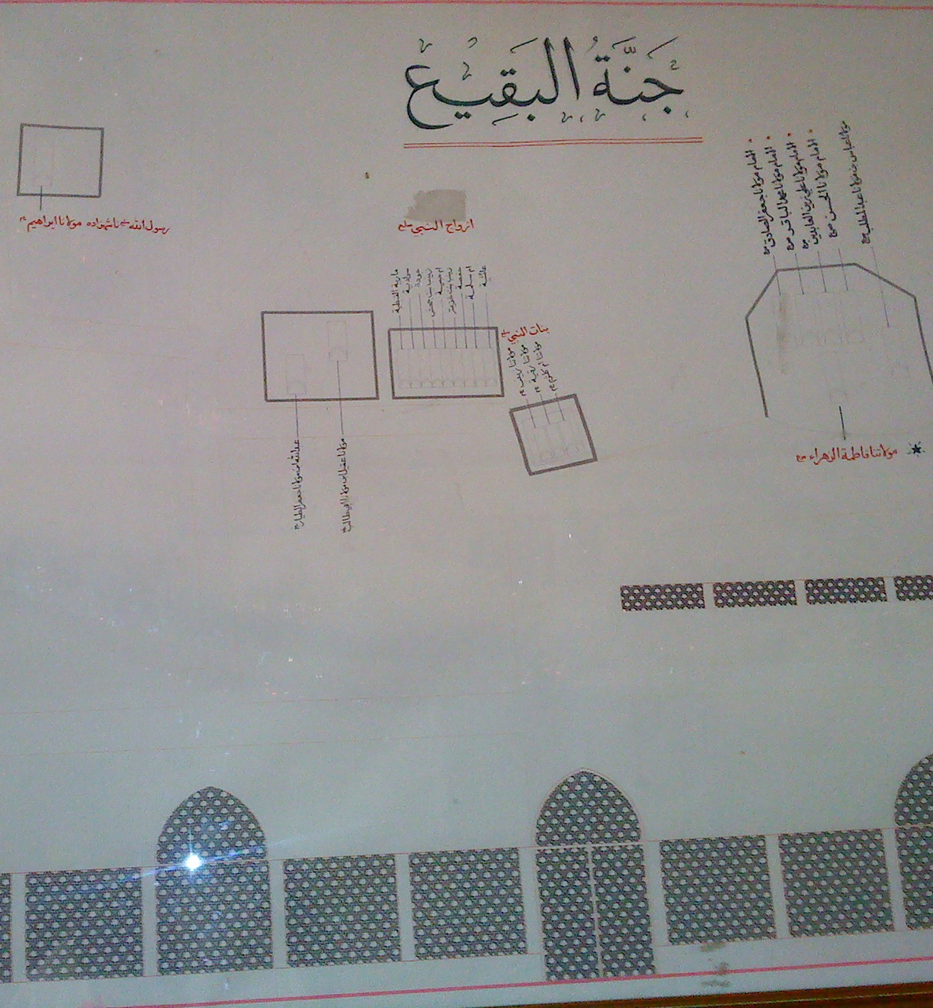 Location of grave of Fatema (marked *) and others at J.Baqi, Medina, Saudi Arabia